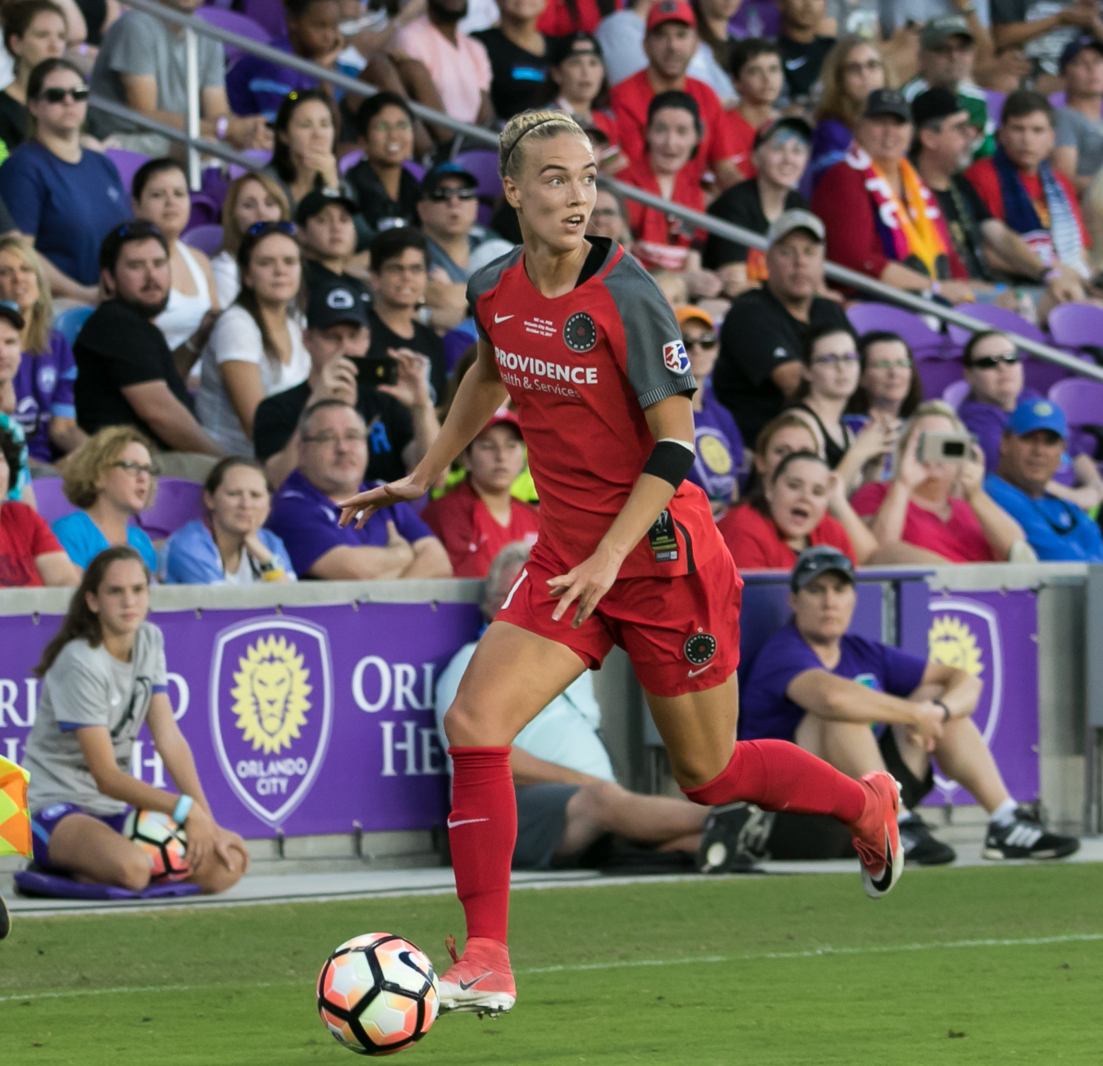 Portland Thorns FC midfielder Dagny Brynjarsdottir playing in the 2017 NWSL Championship game